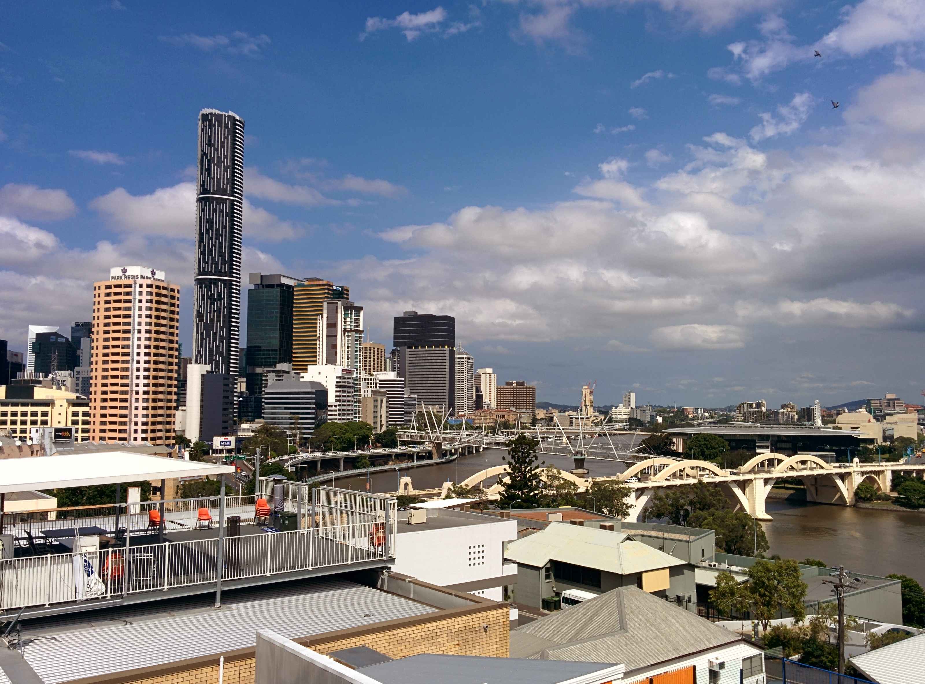 View looking East toward downtown Brisbane from Petrie Terrace